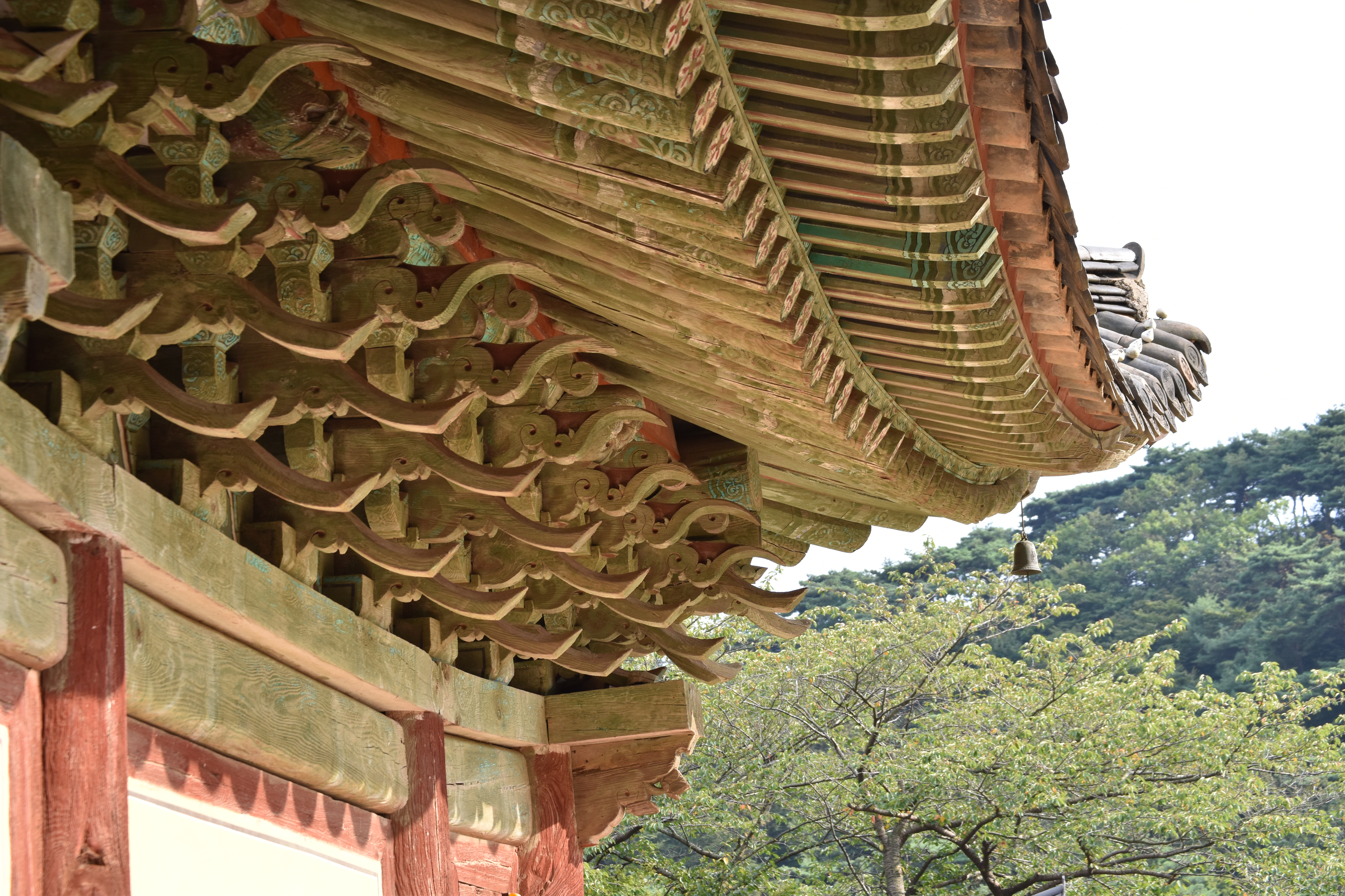 The Gongpo, roofing shores of Korean traditional wooden house, under the roof of Daewungbojeon of Jeondeungsa